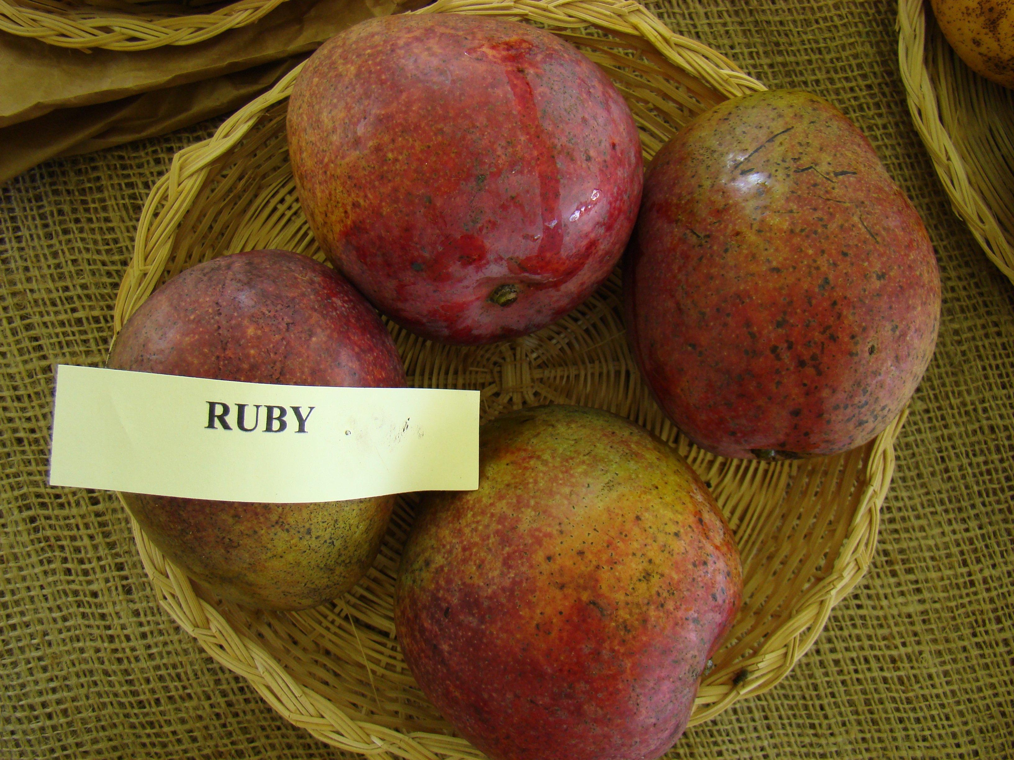 This is a photo of the display of Ruby mango at the Redland Summer Fruit Festival, Fruit & Spice Park, Homestead, Florida.